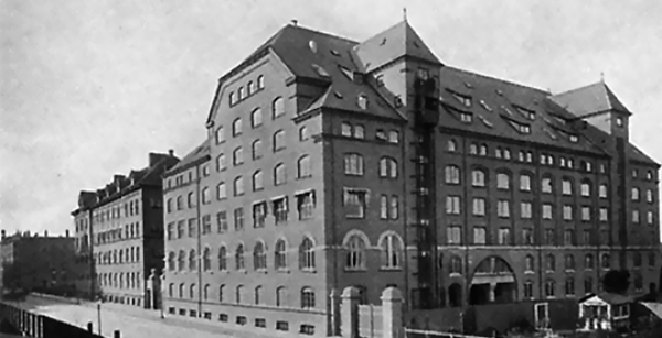 The former FDB headquarters at Njalsgade in the Islands Brygge neighbourhood of Copenhagen, Denmark